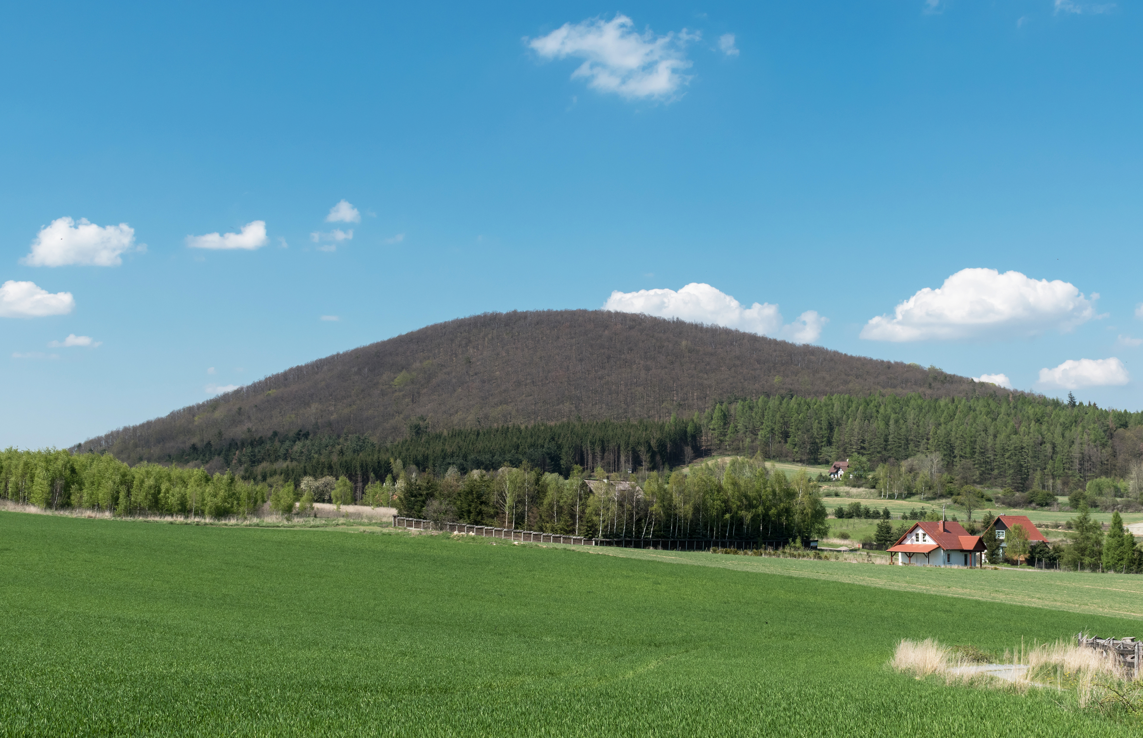 Wielka Grodowa Górka (516 m), Bardzkie Mountains, Sudetes